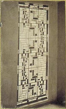 Stained glass composition II, Villa Allegonda Boulevard 1, 2225 AA Katwijk aan Zee.